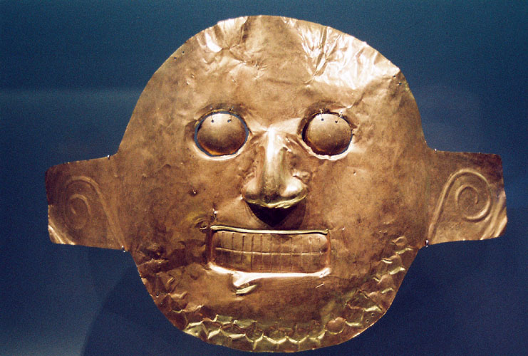 Originally without description; Janmad (uploader to Commons): Golden mask, Calima culture — pre-columbian culture in the territory of modern Colombia; Gold Museum, Bogotá, Colombia